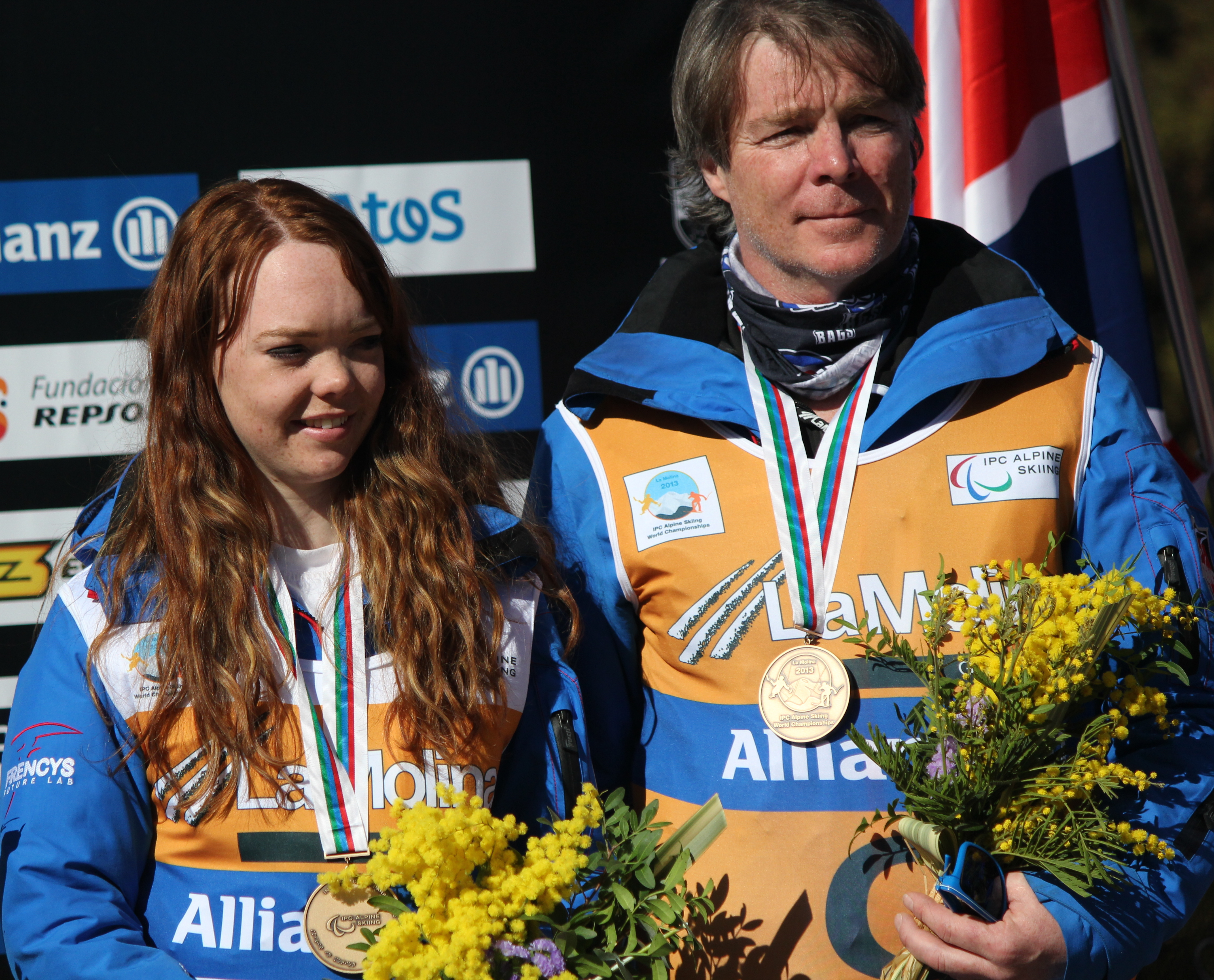 Bronze medallist Jade Etherington and guide. Super G, Visually impaired. 2013 IPC Alpine World Championships in La Molina Spain.